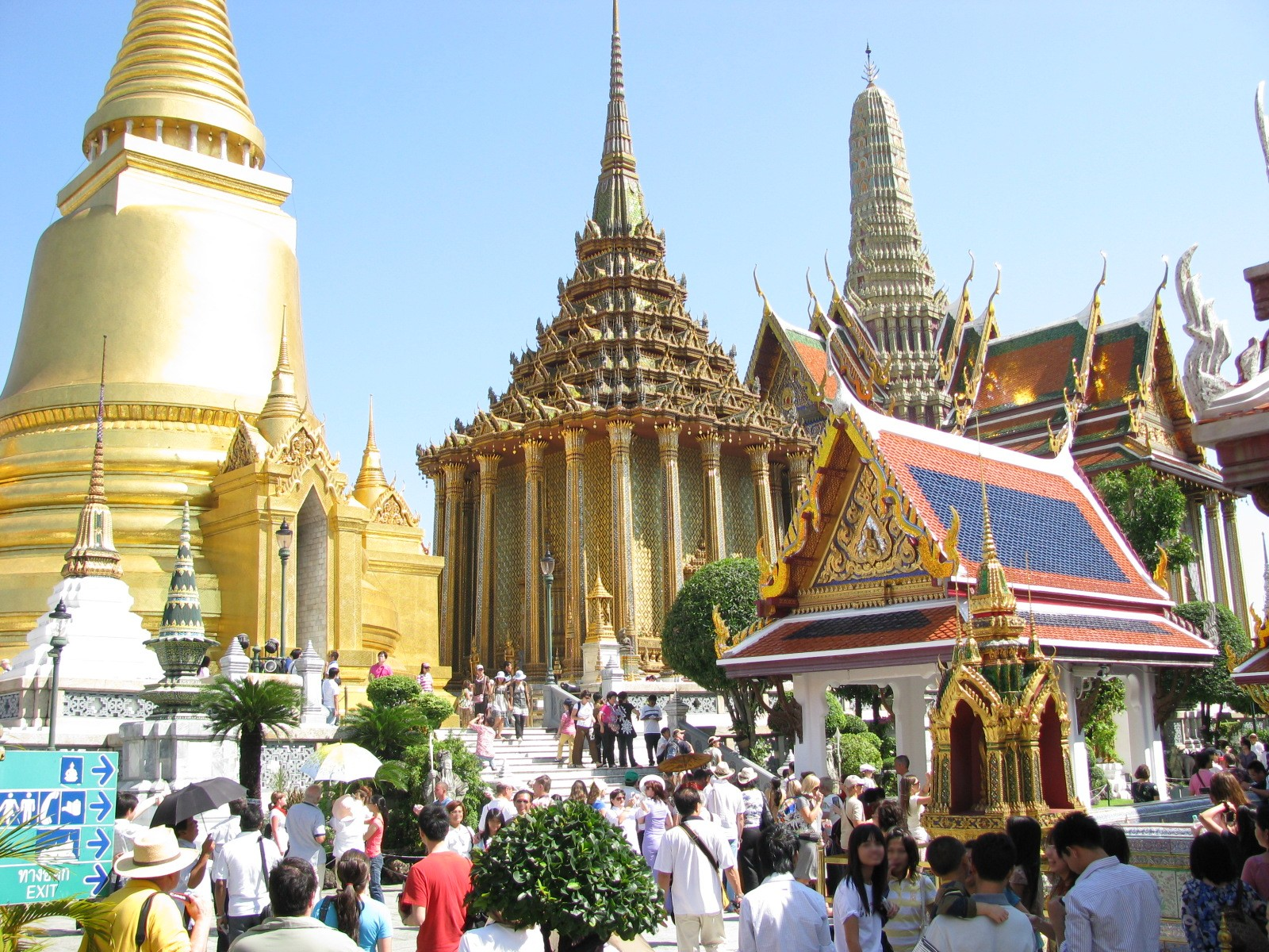 The Temple of the Emerald Buddha in Phra Nakhon, Bangkok, Thailand.